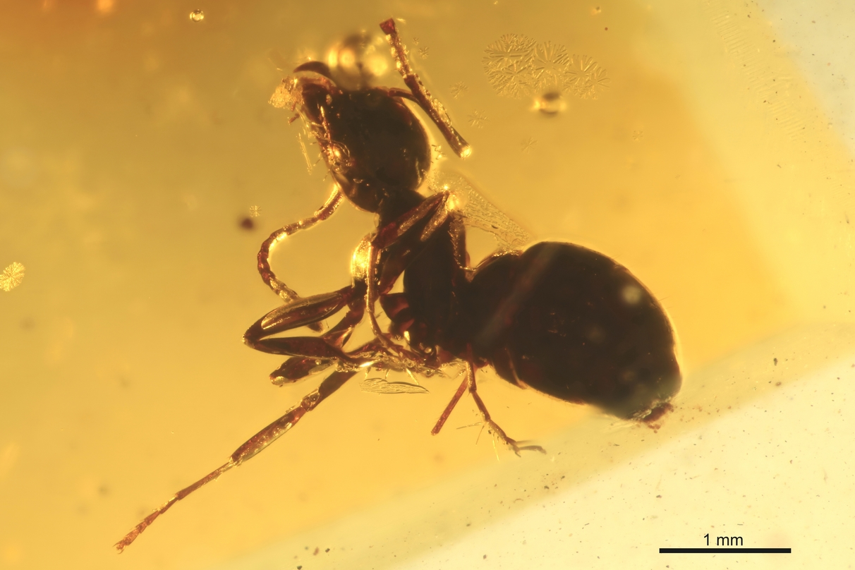 Profile view of Yantaromyrmex samlandica specimen BMNHP17786